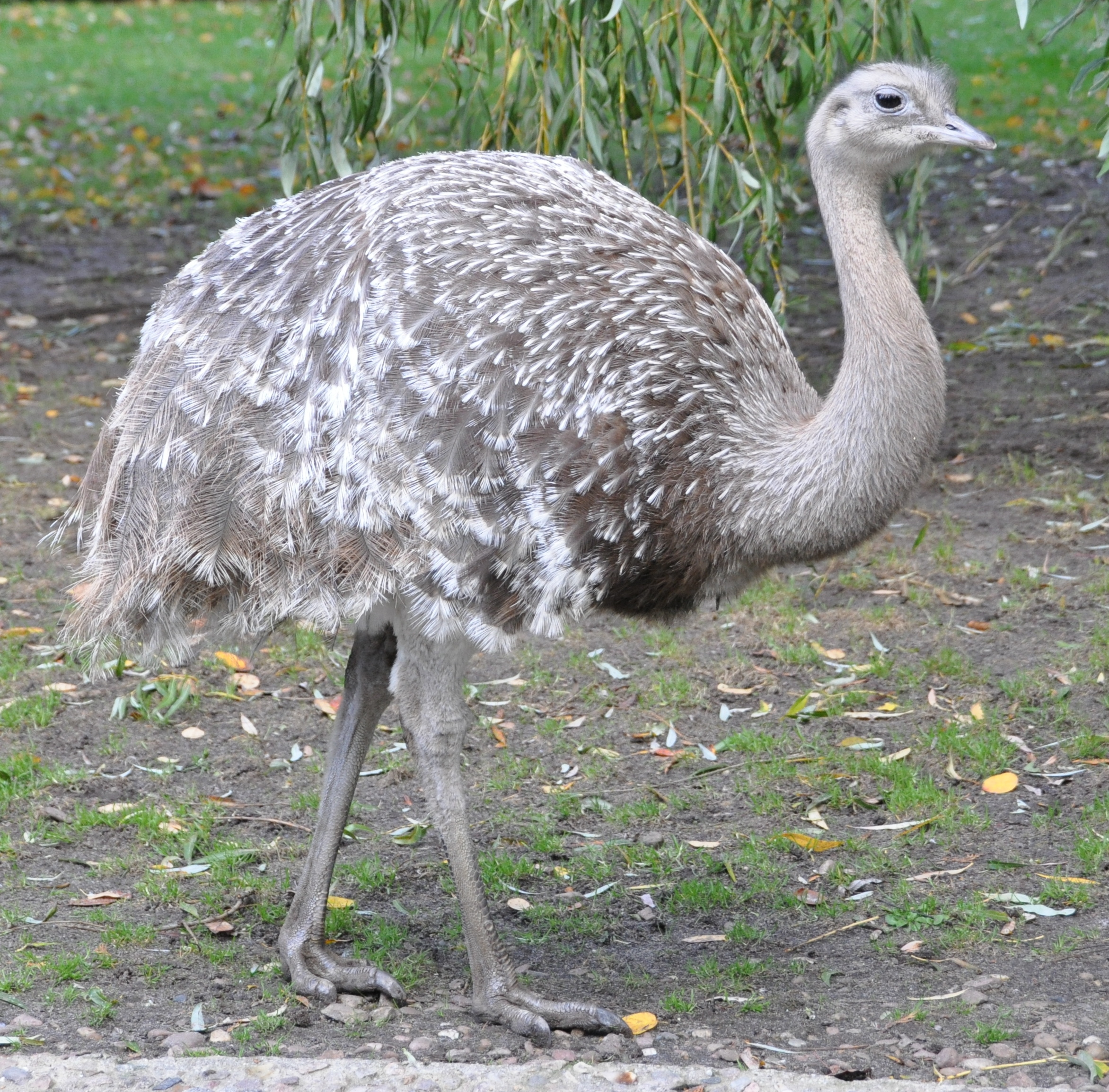 Darwin's Rhea (Pterocnemia pennata) in the Walsrode Bird Park, Germany.